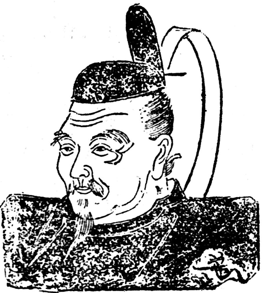 Oe no Masafusa